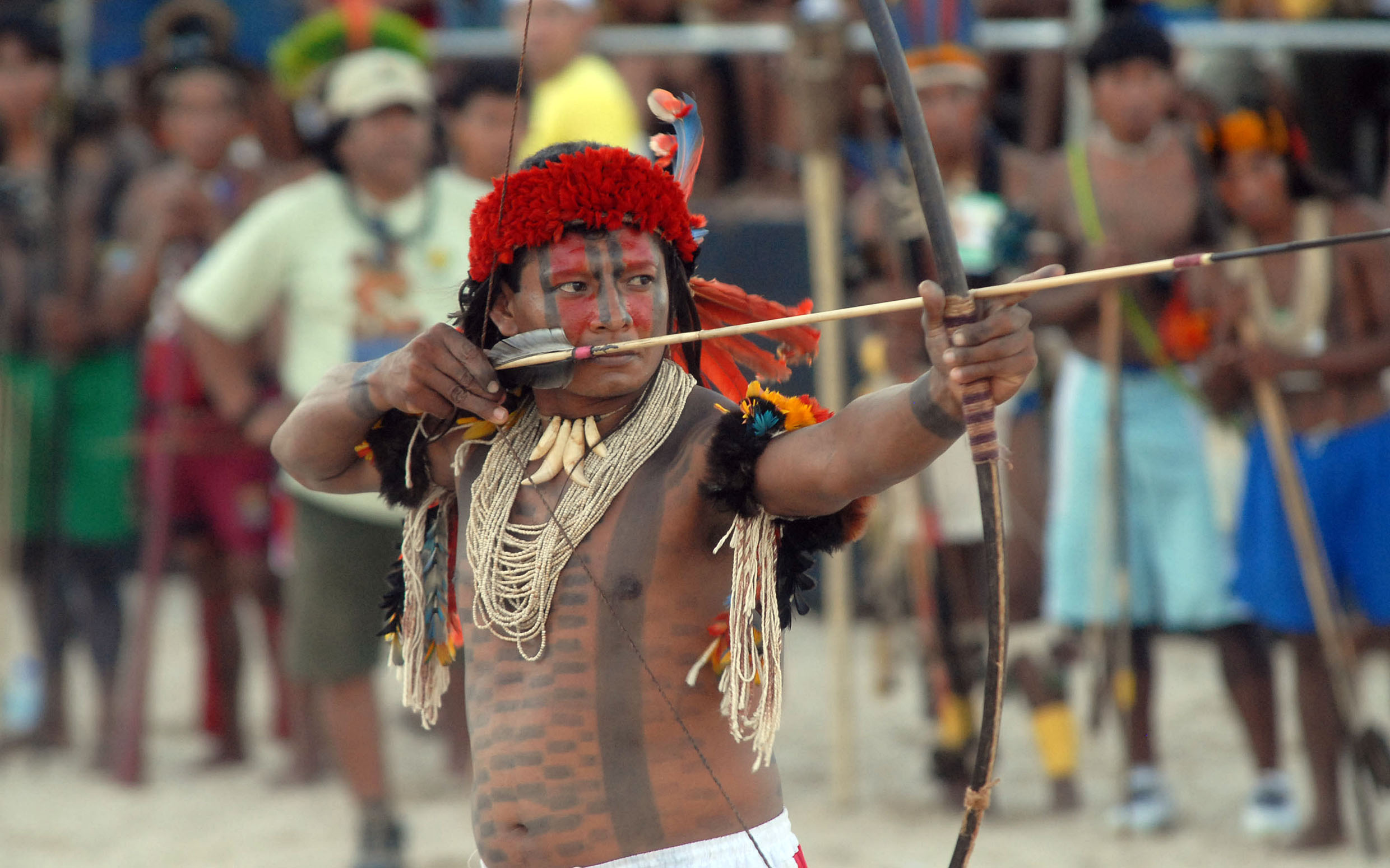 Rikbaksta indian performing at a bow-and-arrow competition. Indigenous Peoples Games, Olinda, PE.